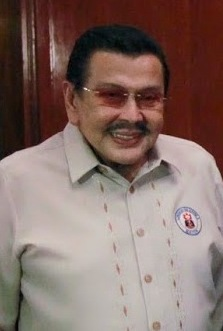 THEN AND NOW. President Rodrigo R. Duterte (center) poses with former President and Manila Mayor Joseph E. Estrada (left), former President and Pampanga Representative Gloria Macapagal-Arroyo (2nd from left), former President and Special Envoy to China Fidel V. Ramos (2nd from right), and former President Benigno S. Aquino III (right), before the start of the National Security Council (NSC) meeting at the State Dining Room of the Malacañan Palace on July 27. REY BANIQUET/PPD